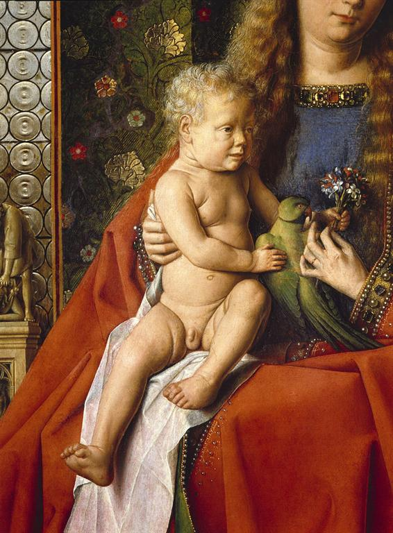 Oil on wood, 122 x 157 cm. Groeninge Museum, Bruges, Belgium